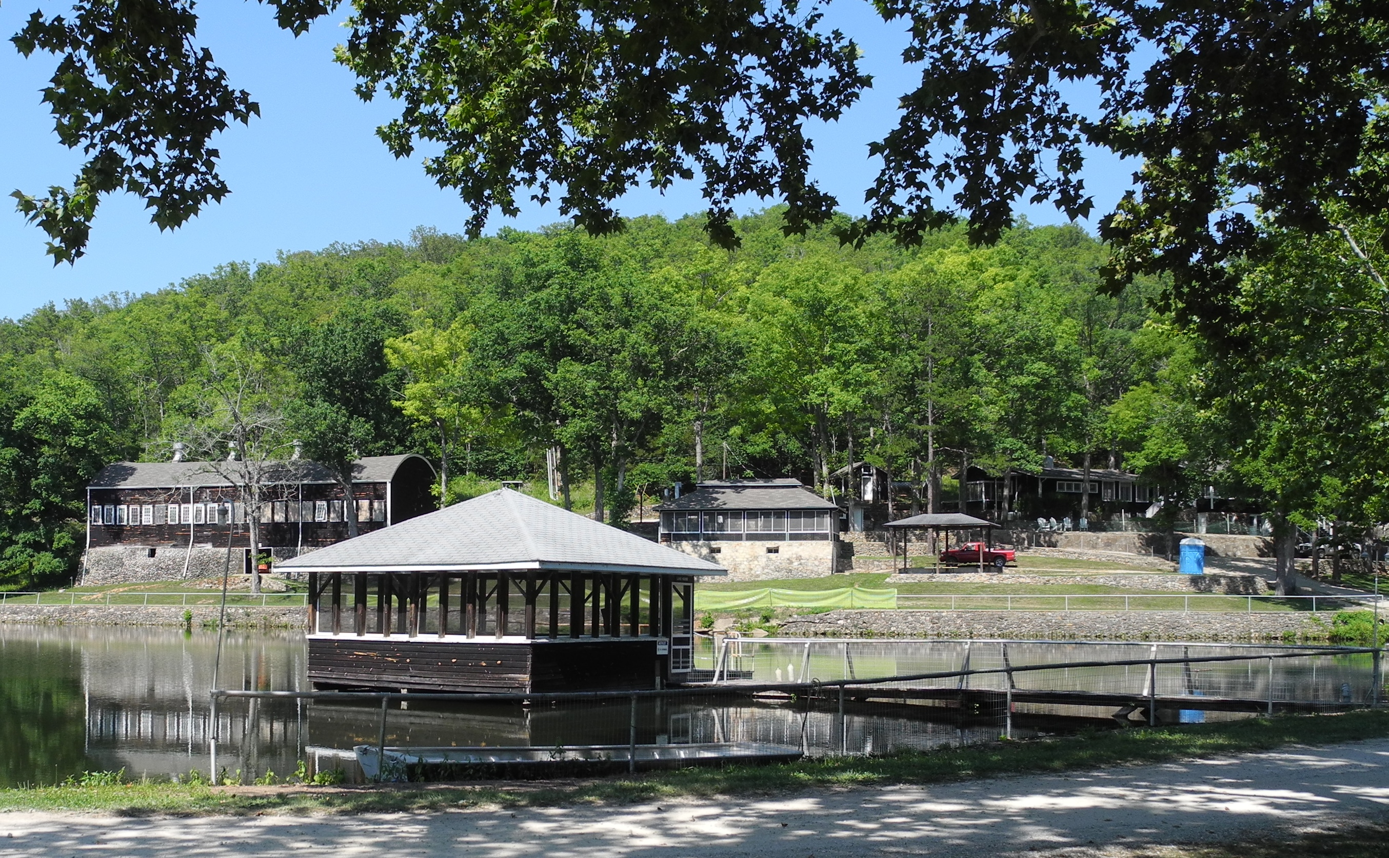 Lake house and other historic buildings of the Alton Club at Current River State Park in the Missouri Ozarks region.